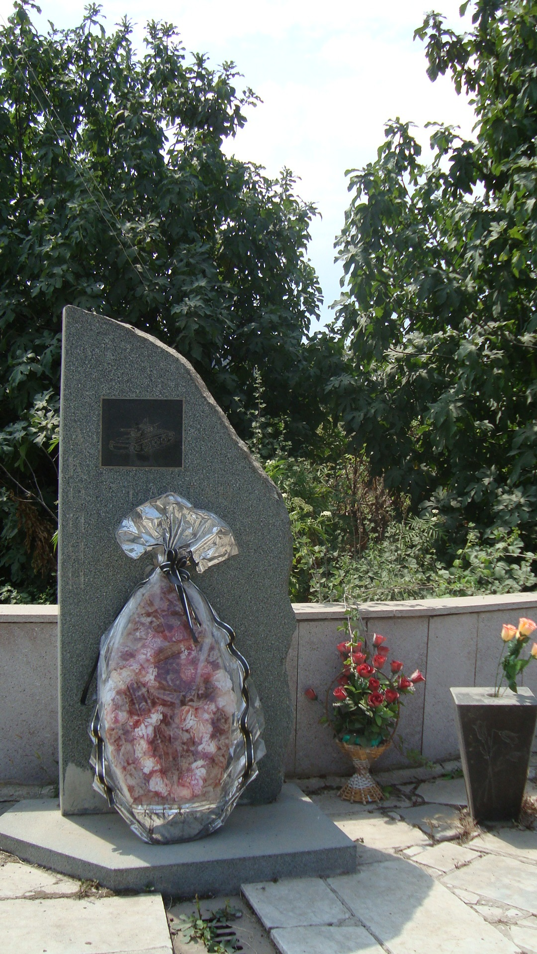 A monument in honor of defenders of the Maragha during the Maraghar Massacre. Nor Maragha village, Martakert district, Republic of Mountainous Karabakh (Artsakh).